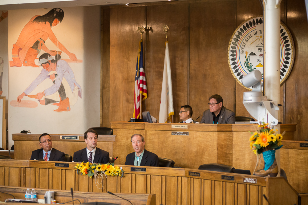 Tom Udall replies to the concerns of the Navajo Nation Council Delegates during his visit to the Navajo Nation Council Chambers in Window Rock, Arizona.